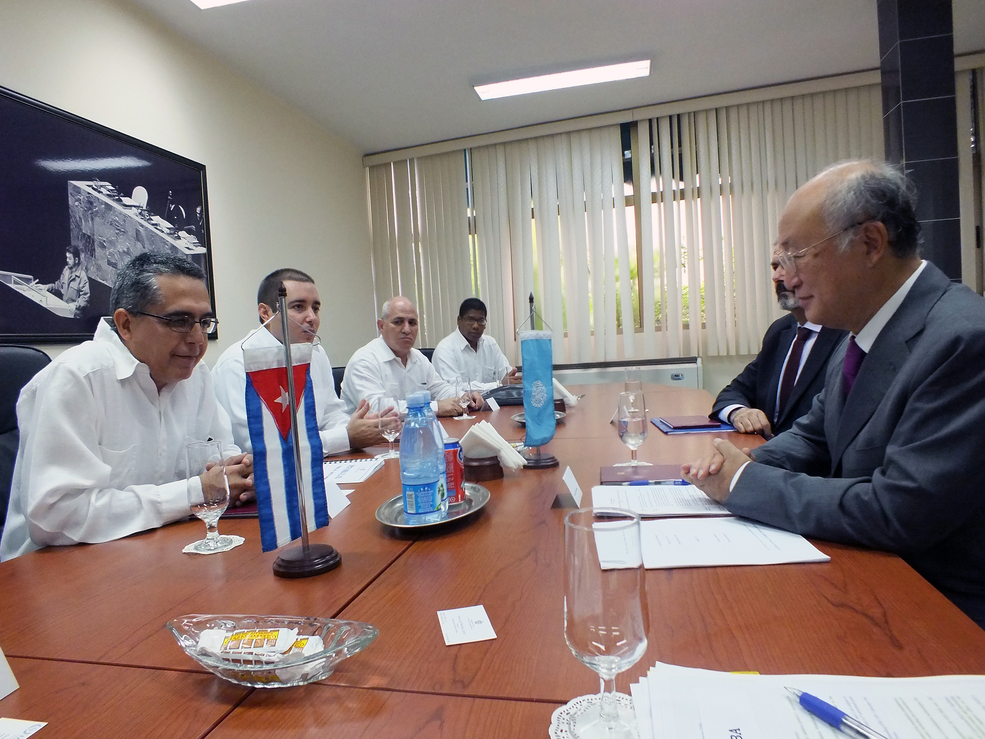 IAEA Director General Yukiya Amano meets with Mr Marcelino Medina González, interim Minister of Foreign Affairs, during his official visit to Cuba, 30 September 2013. Photo Credit: Conleth Brady / IAEA